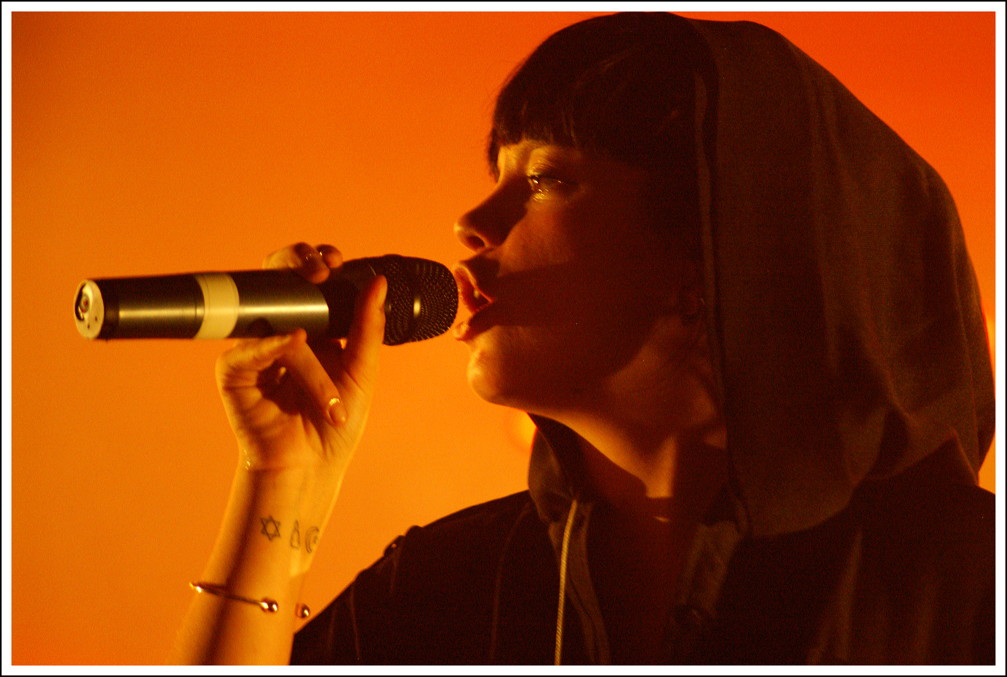 Lily Allen live at the Solidays festival (Paris, France).